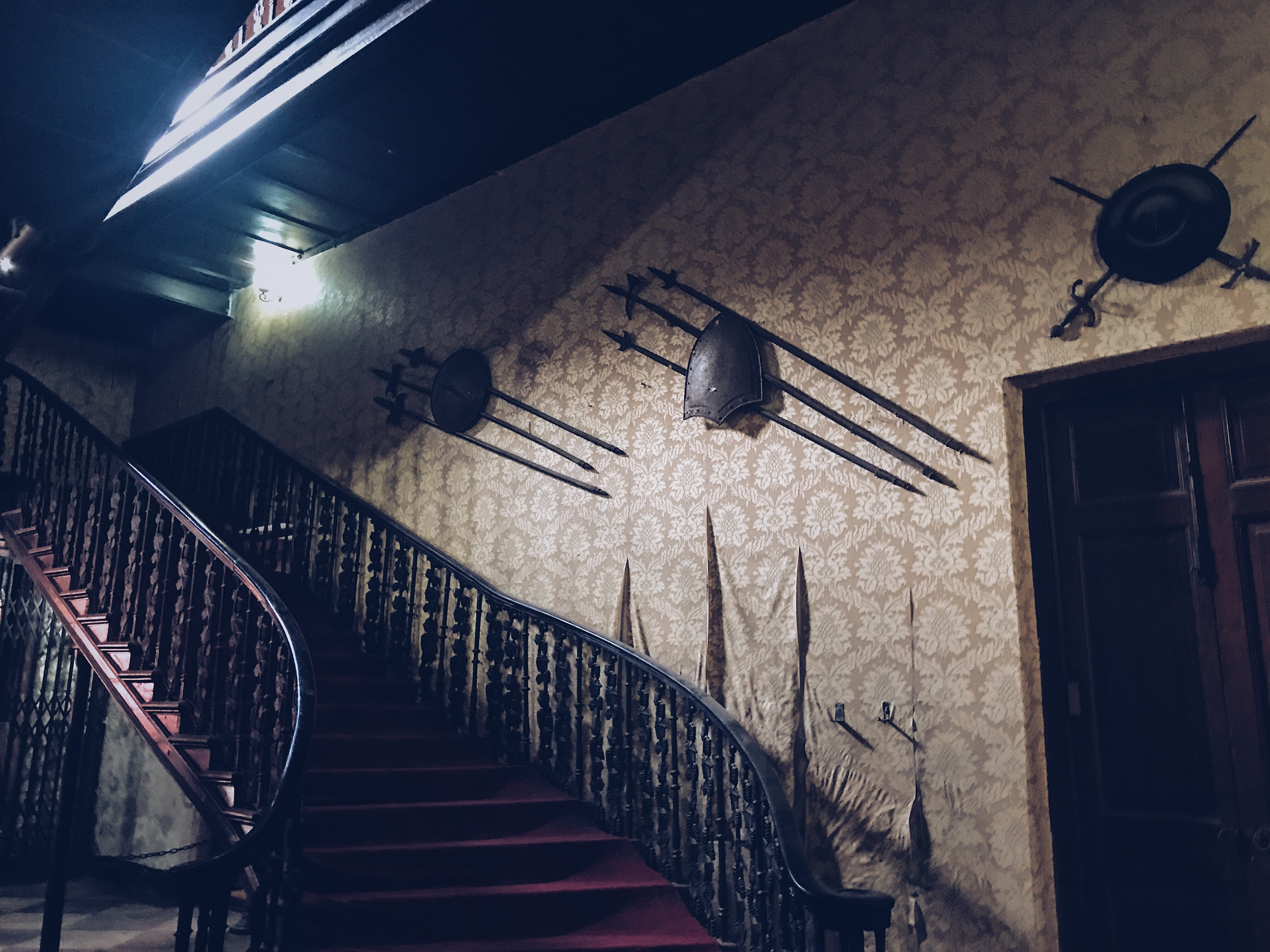 Ahsan Manzil (Bengali: আহসান মঞ্জিল, Ahsan Monjil) was the official residential palace and seat of the Nawab of Dhaka. The building is situated at Kumartoli along the banks of the Buriganga River in Dhaka, Bangladesh.